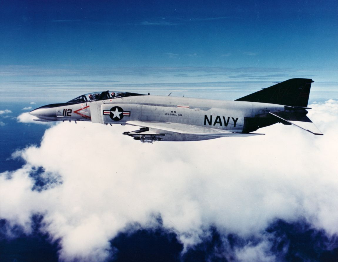 A U.S. Navy McDonnell F-4B Phantom II (BuNo 15040?) of Fighter Squadron 51 (VF-51) "Screaming Eagles" in flight. VF-51 was assigned to Carrier Air Wing 15 (CVW-15) aboard the aircraft carrier USS Coral Sea (CVA-43) for a deployment to Vietnam from 9 March to 8 November 1973.